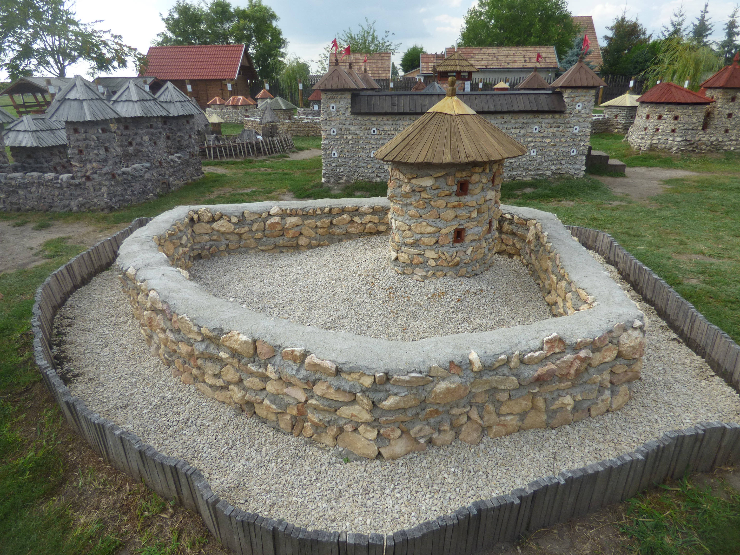 A bakonycsernyei Csiklingvár makettje a dinnyési Várparkban